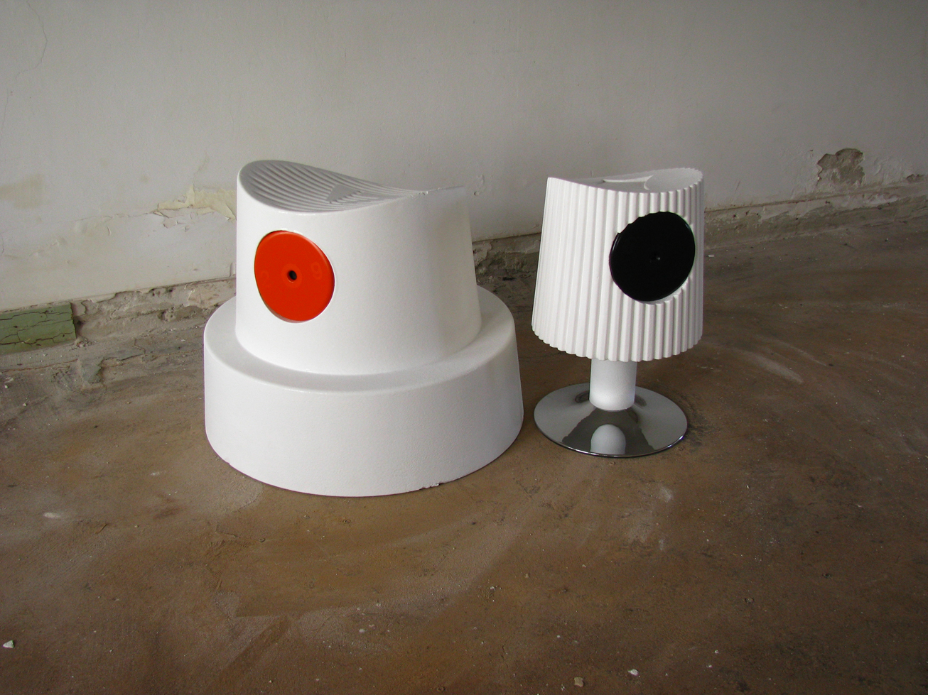 Fat Cap Chairs